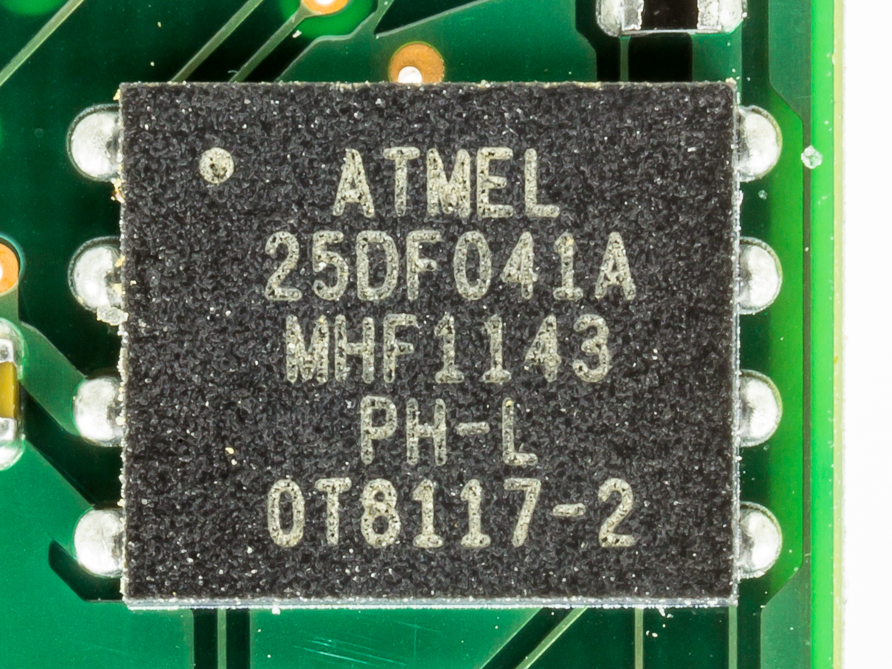 Seagate ST160LM003 Momentus - Atmel 25DF041A - 4-megabit 2.7-volt Only Serial Firmware DataFlash Memory. Package: MLF micro-leadframe (= QFN)